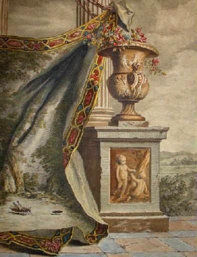 An 18th century coloured print by Jean-Baptiste Oudry from his luxury edition of Aesop's Fables